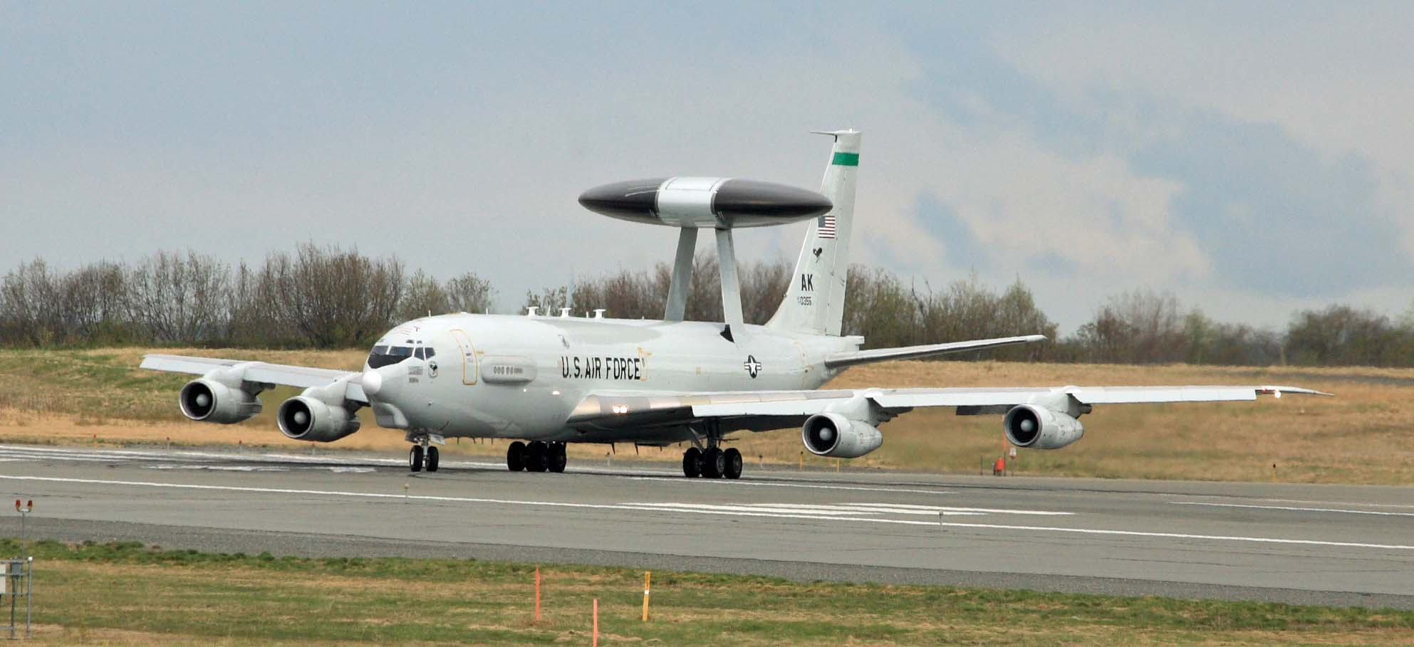 Cold, gray, blah day in May 2011; too cold and blustery for biking, chores all finished. Good time to head to the airport with a load of travel books to unwind and watch planes coming from and going to exotic locations that I can only dream of visiting. Good way to spend an hour just watching the changes in technology. I took these photos on the west side of Ted Stevens Anchorage International Airport.